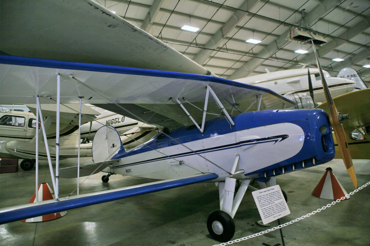 (replica):Great Lakes 2T-1A Sportster (N107C). Some 200 of these planes were built between 1929 and 1932. Because of their universal appeal and aerobatic excellence the little ship dominated air shows into the 1960s. Its swept-back upper wing gave it a very high rate of roll and with larger engines it was very responsive. The plane was so popular that it was revived and several more were built between 1974 and 1978.